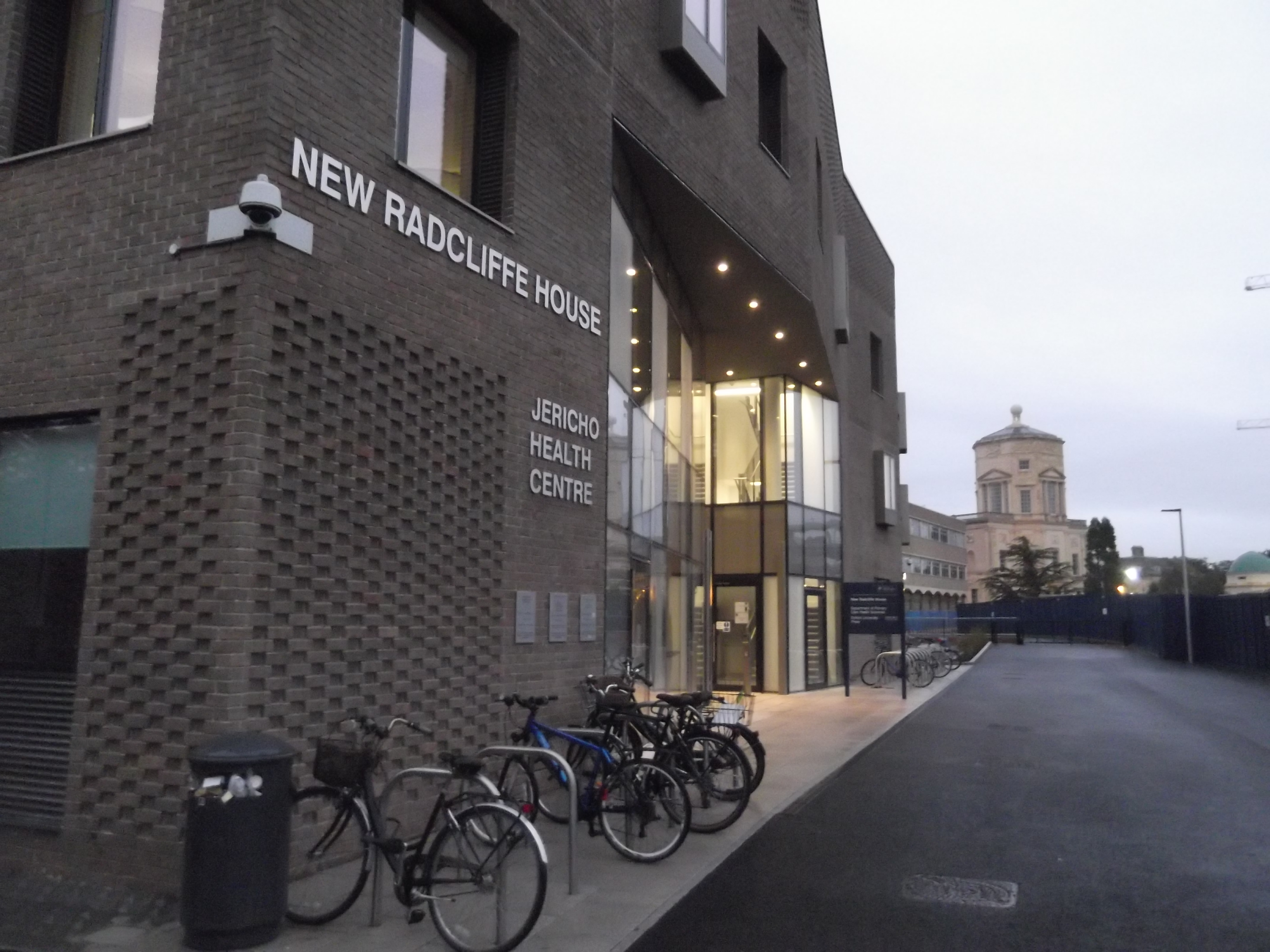 New Radcliffe House, including the Jericho Health Centre, off Walton Street, Oxford, England, on the Radcliffe Observatory Quarter of the University of Oxford, with the Radcliffe Observatory based on the Tower of the Winds in the background.